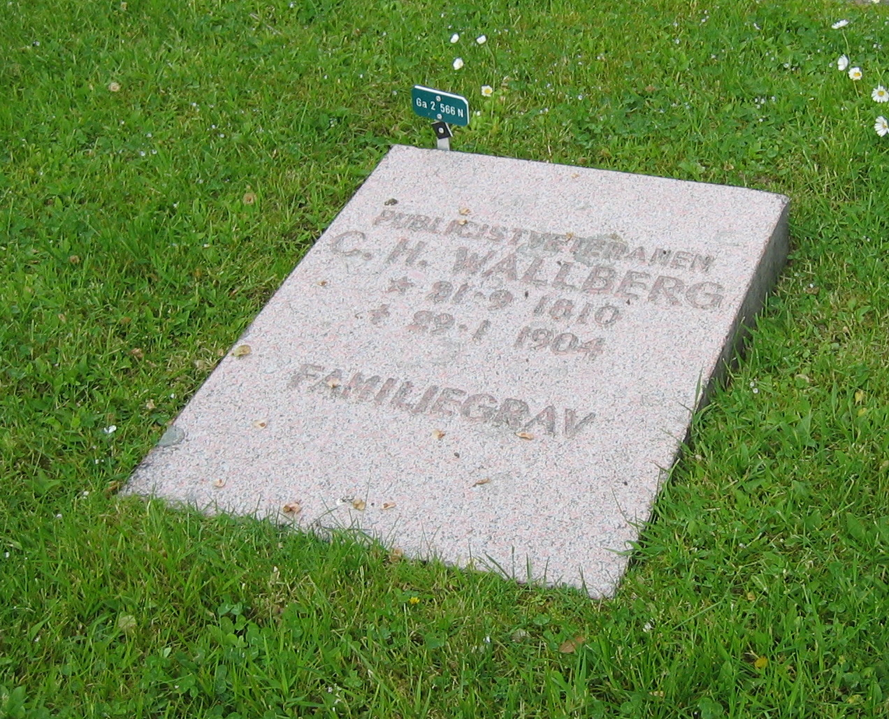 Grave of Carl Henrik Wallberg, Swedish journalist, in Linköping.